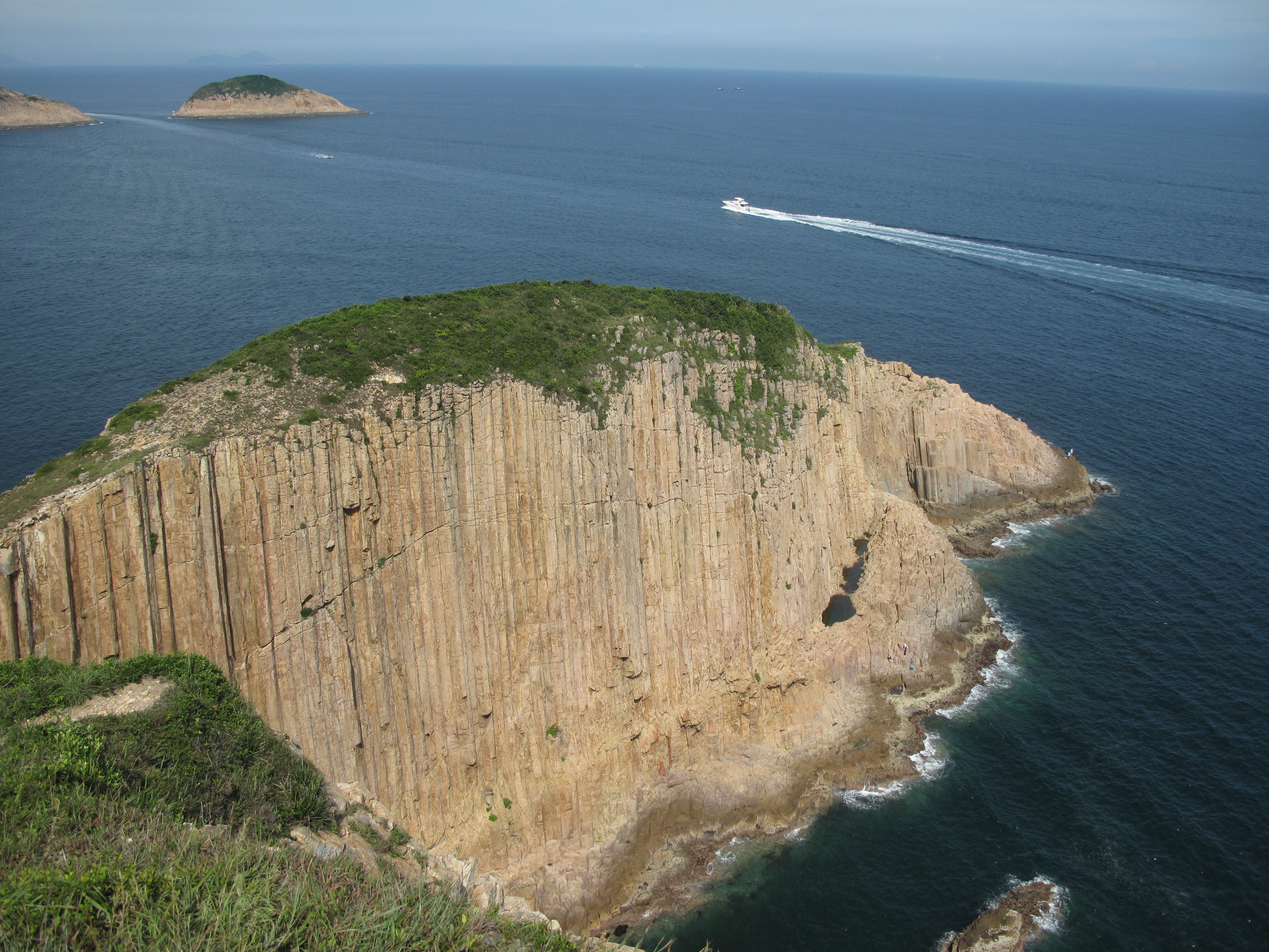 Photo of Po Pin Chau